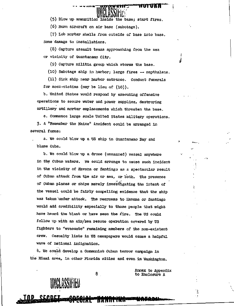 Actual photo of the Northwoods Memorandum for the U.S. Secretary of Defense (March 13, 1962) titled: "Justification for U.S. Military Intervention in Cuba (TS)", page 8. Taken from: Page 1: image:NorthwoodsMemorandum.png